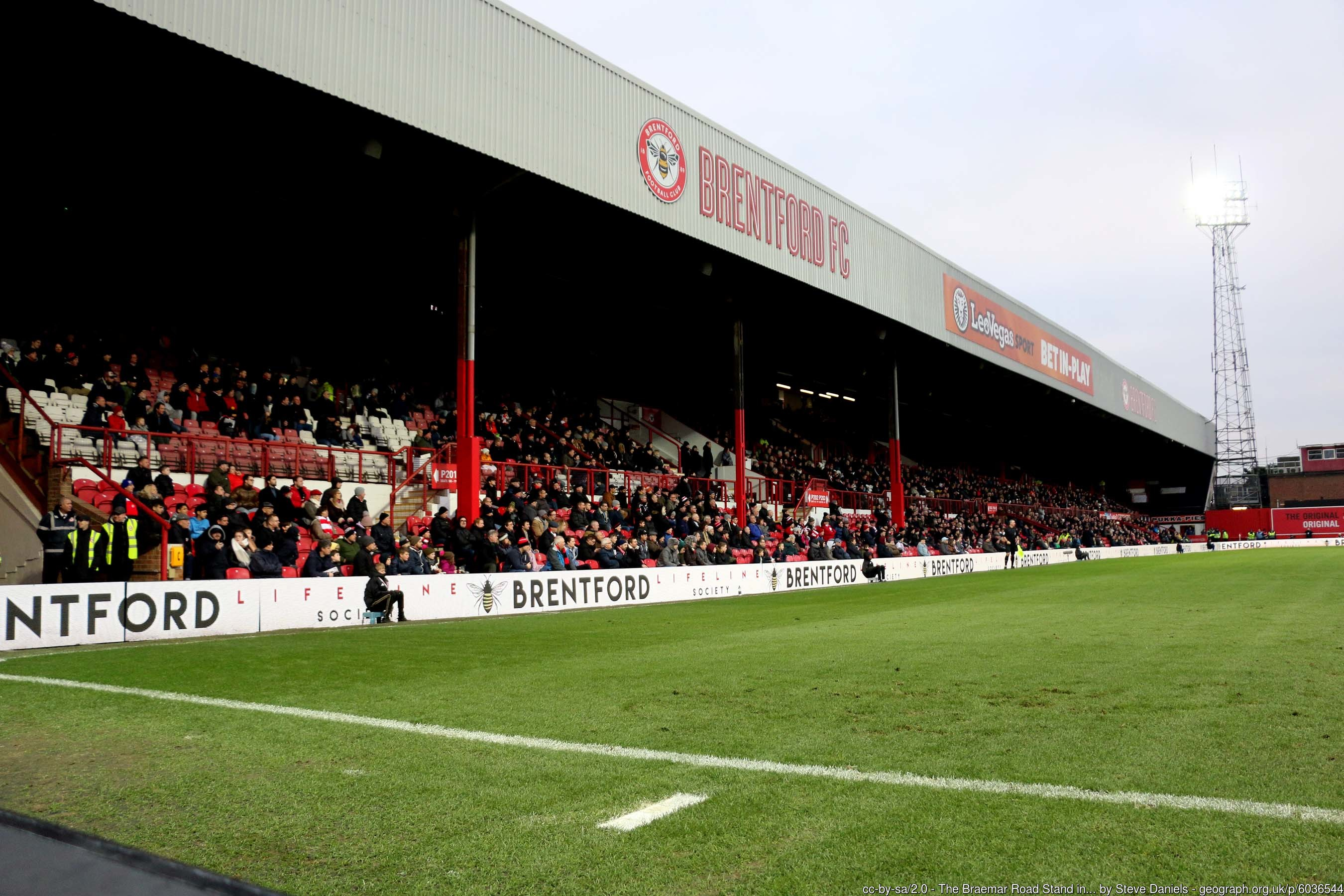 Braemar Road stand, Griffin Park, Brentford, London, January 2019.